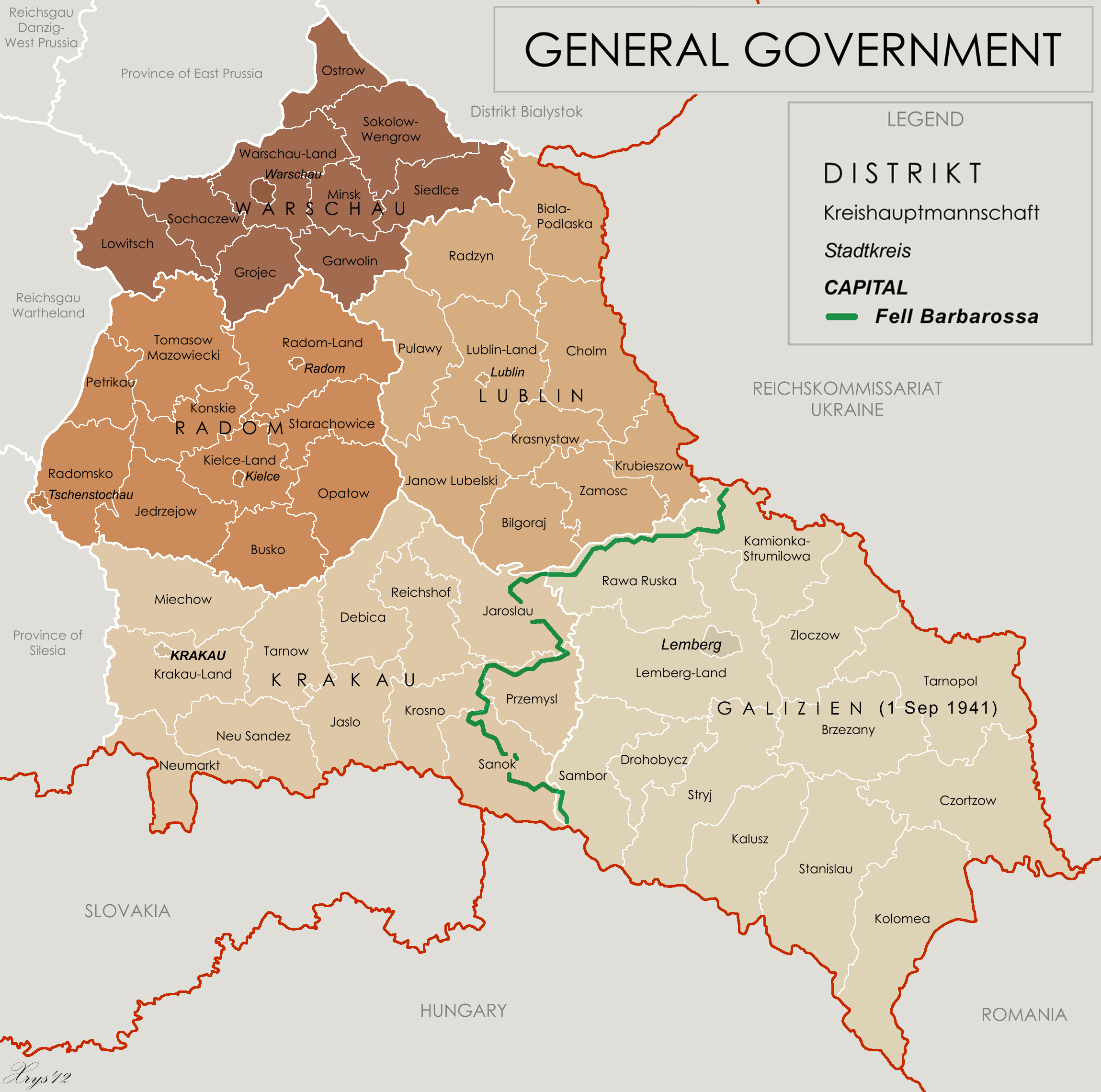 Map of the administrative areas of the General Government